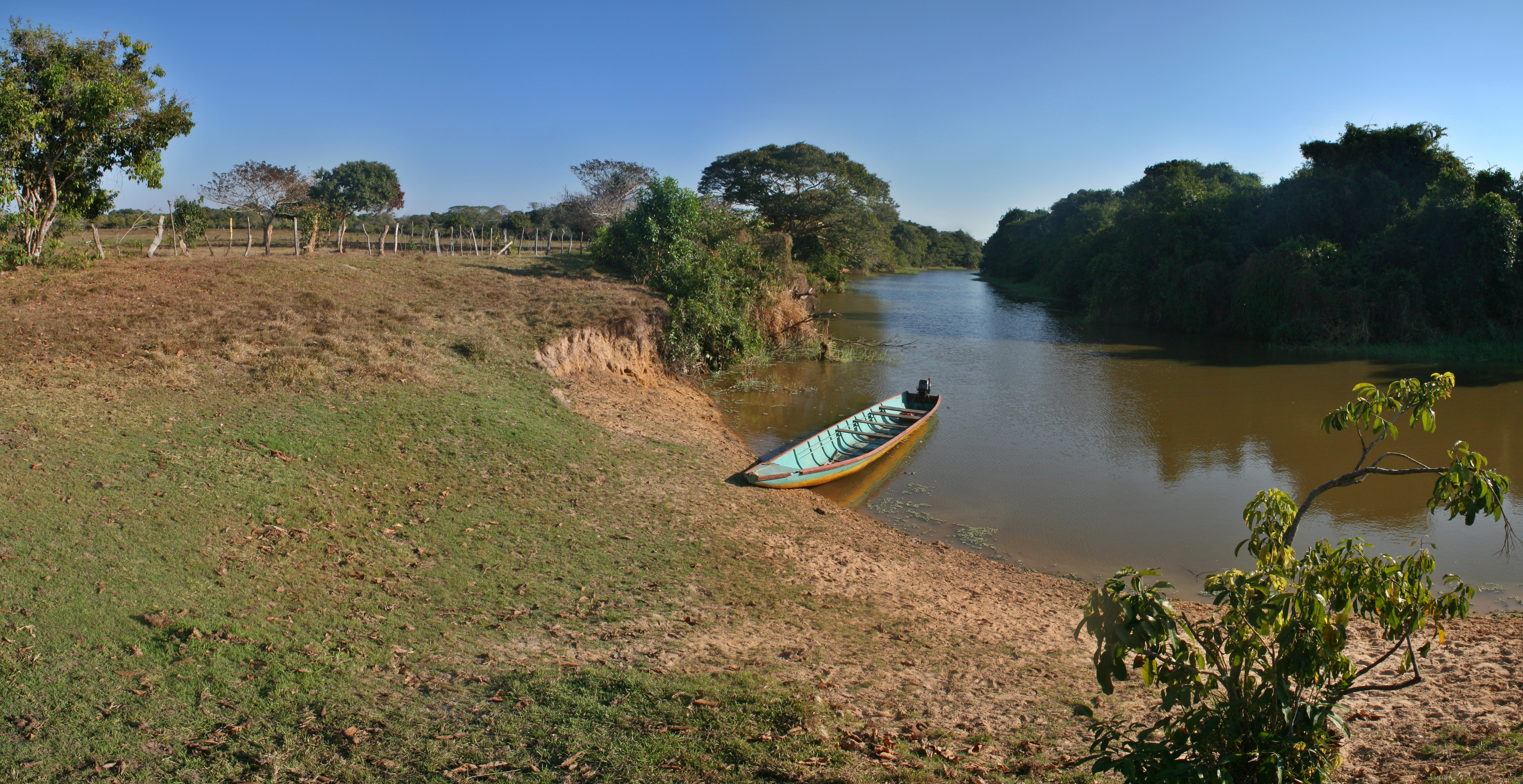 Panoramic view showing one of the channels that connect Río Arauca and Río Apure, the gallery forest surrounding it, and the savannah that makes most of the surrounding landscape. Image taken in the Modulo Chititera, Apure state plains (Llanos), (Venezuela).